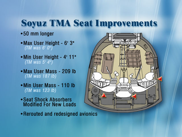 Soyuz TMA seats accommodate both larger and smaller occupants than the older model, and seat shock absorbers have been modified to suit the varying loads.